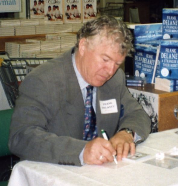 Frank Delaney, Irish author, at a book signing